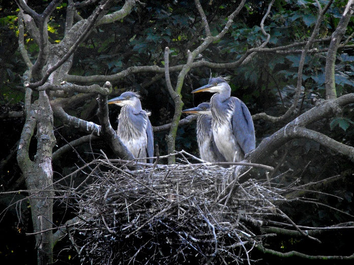 Grey Herons nest at Stanley Park, Blackpool. 2009.